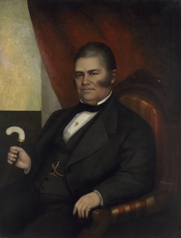 John Jones c. 1865 by Aaron E. Darling Oil on canvas 46 x 36 in. Chicago History Museum, Gift of Mrs. L. Jones Lee 1904.18, ICHi-62629